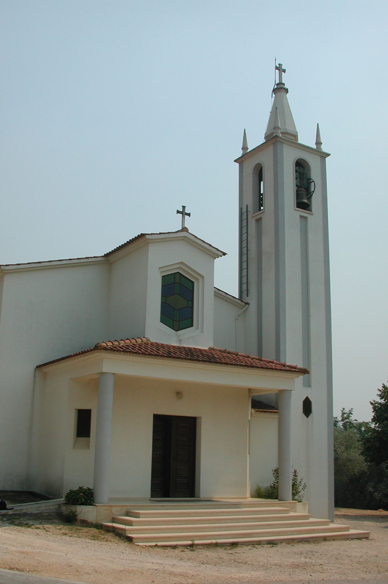 Church of Formigais, Ourém, Portugal